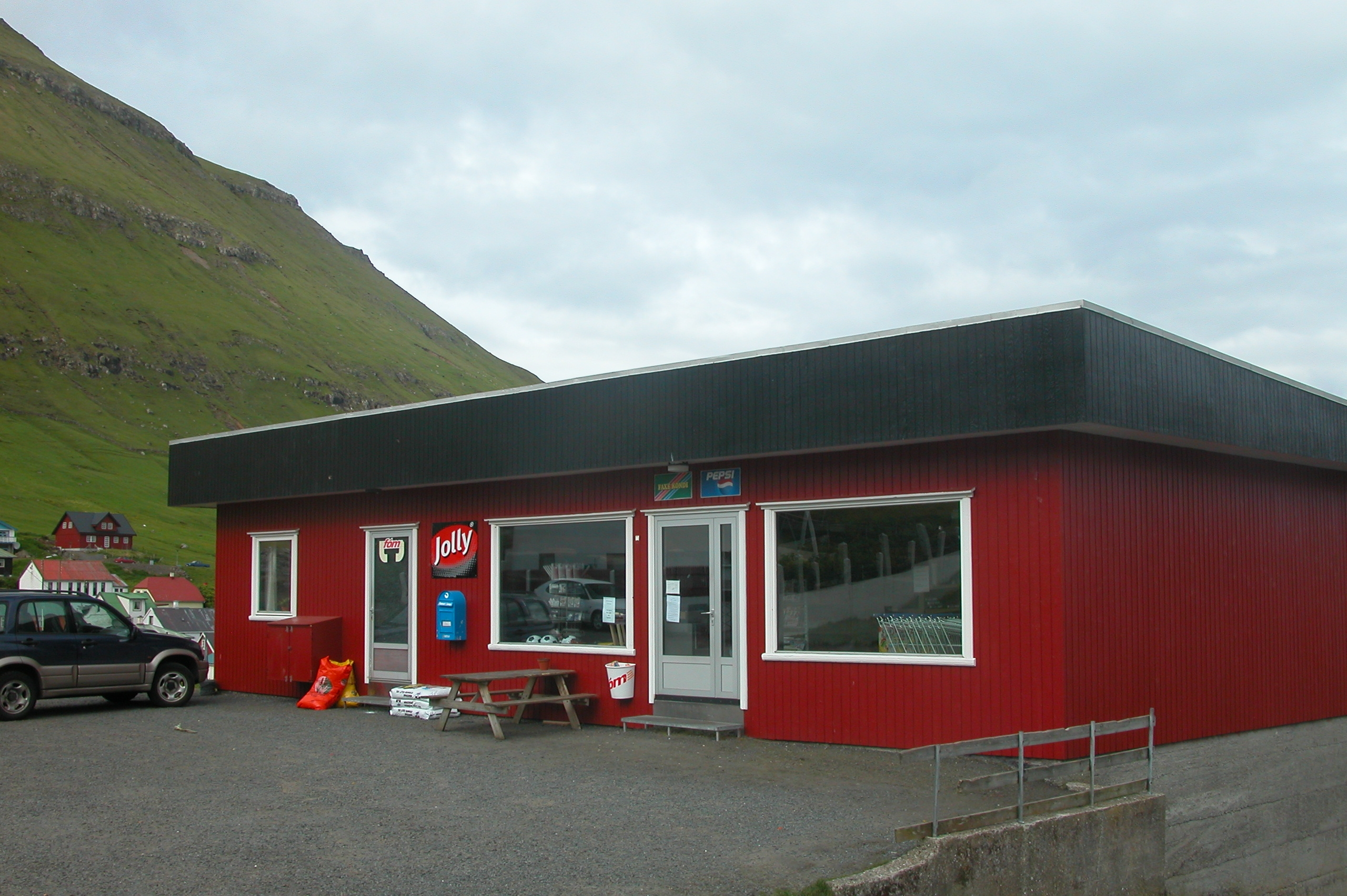 Supermarket of Oyndarfjørður, Eysturoy, Faroe Islands.